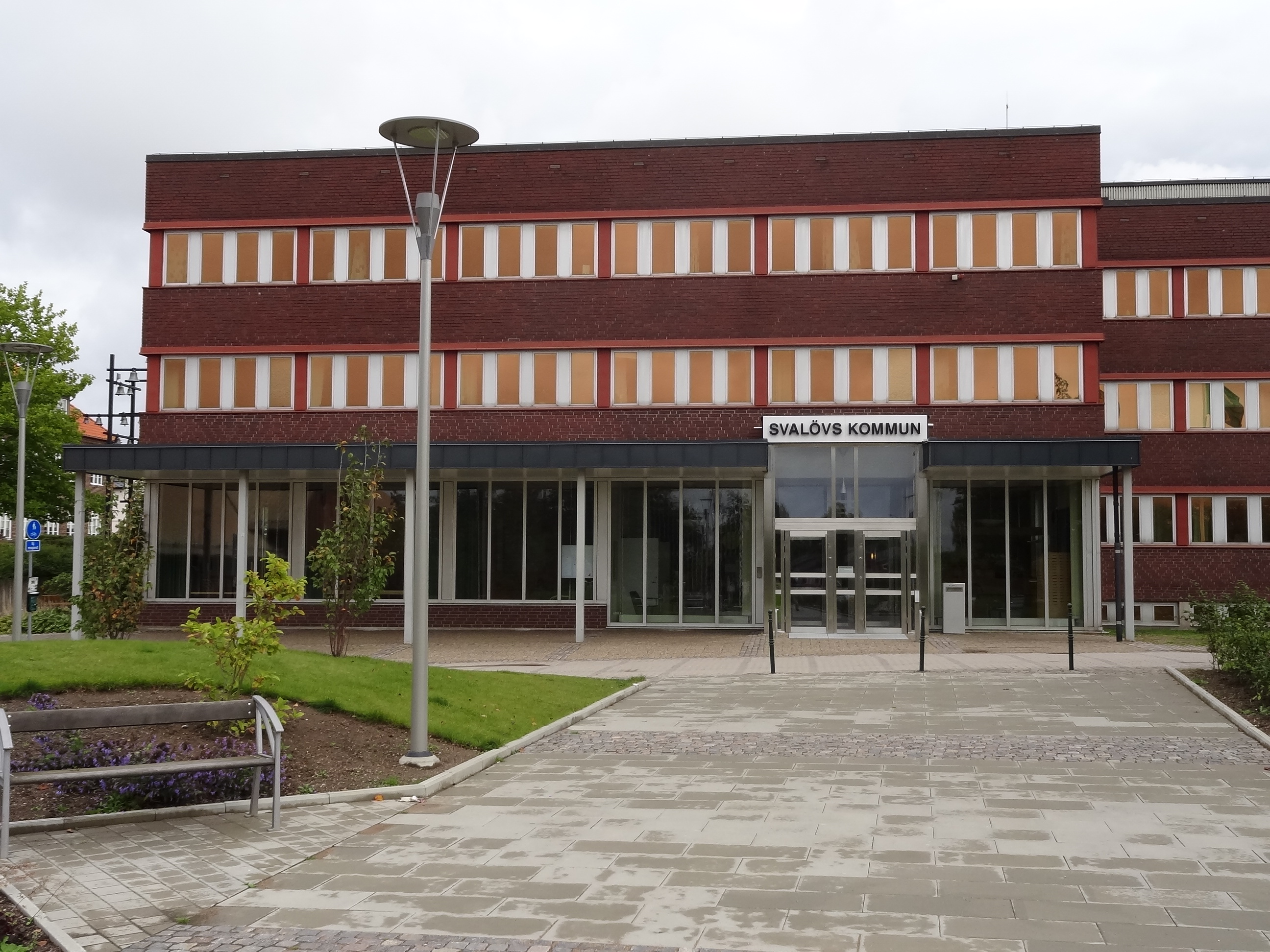 Svalöv municipal building